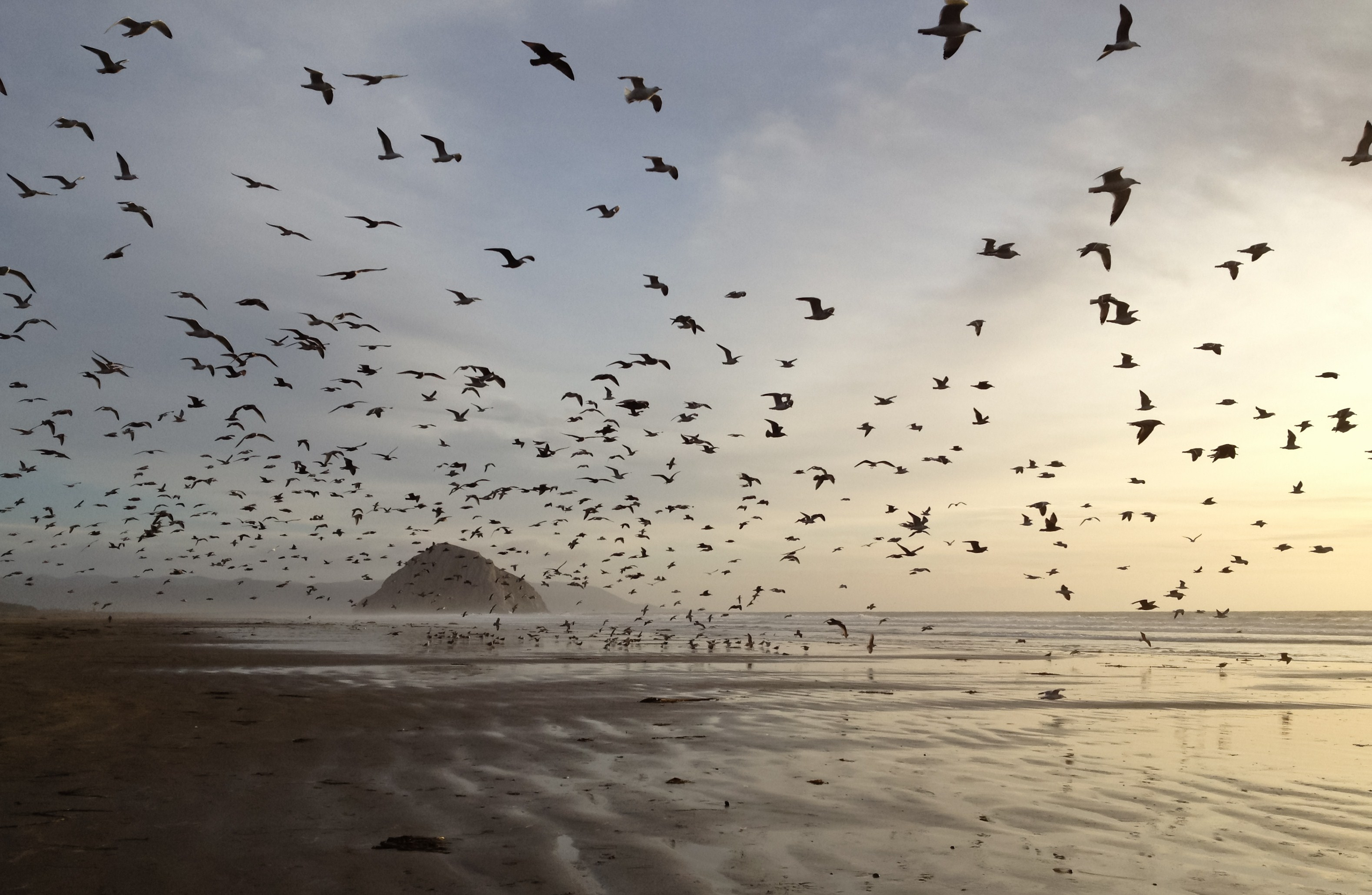 1000’s of Gulls on Morro Strand State Beach at low tide with Morro Rock in background. 21 Jan 2012. Morro Bay, CA.